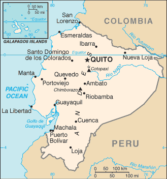 A map of Ecuador, showing major cities.